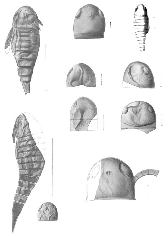 Fossils of the eurypterid Hughmilleria shawangunk.